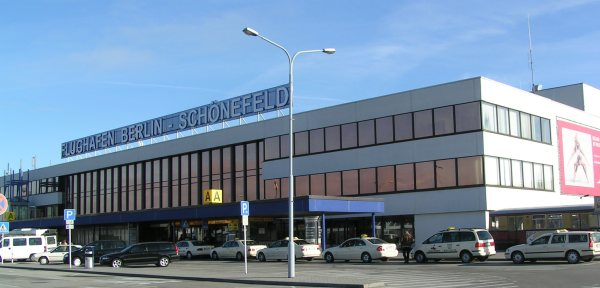 Entrance building of the Berlin airport Schönefeld, Berlin, Germany